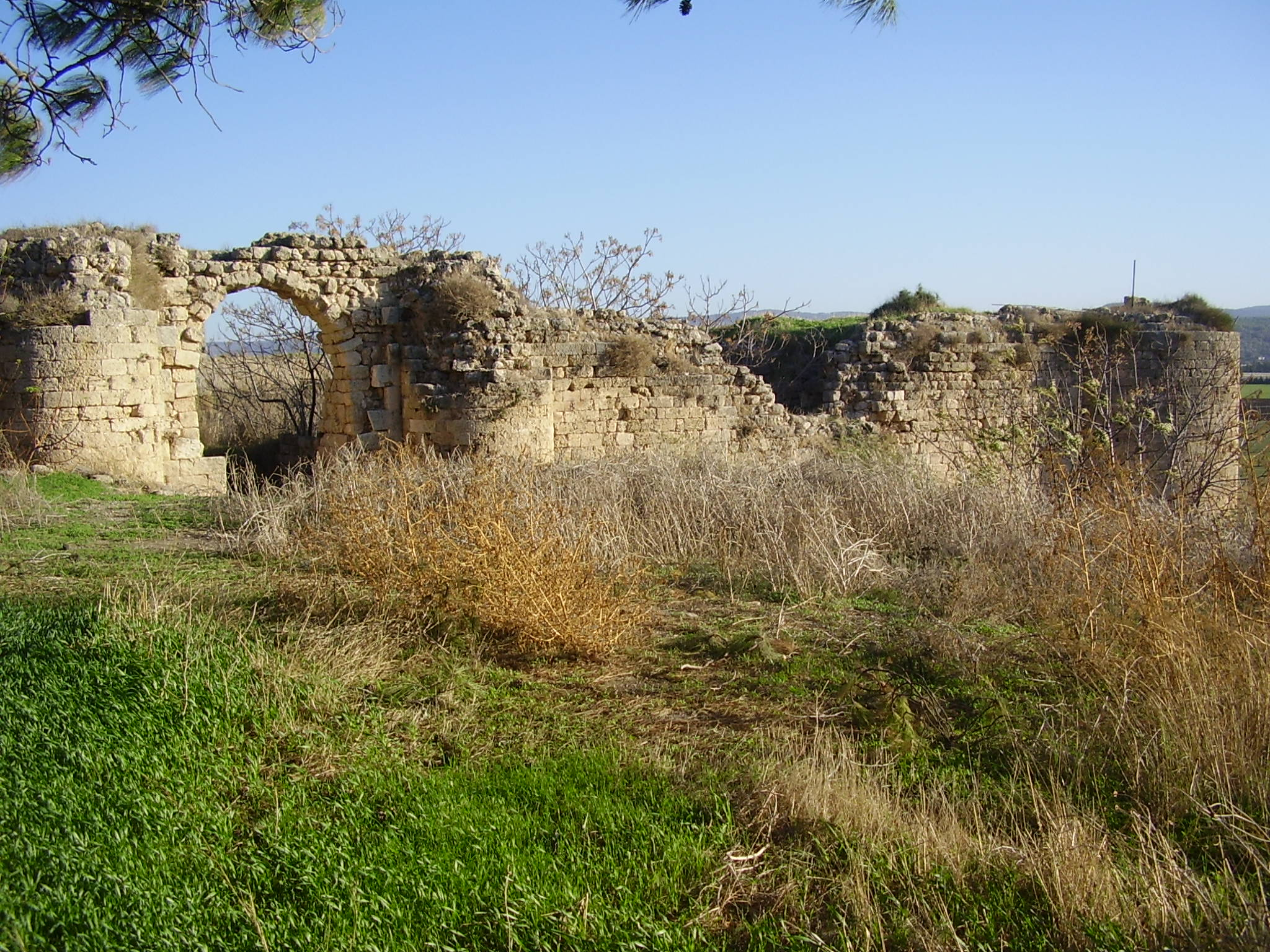 habonim castle in habonim village